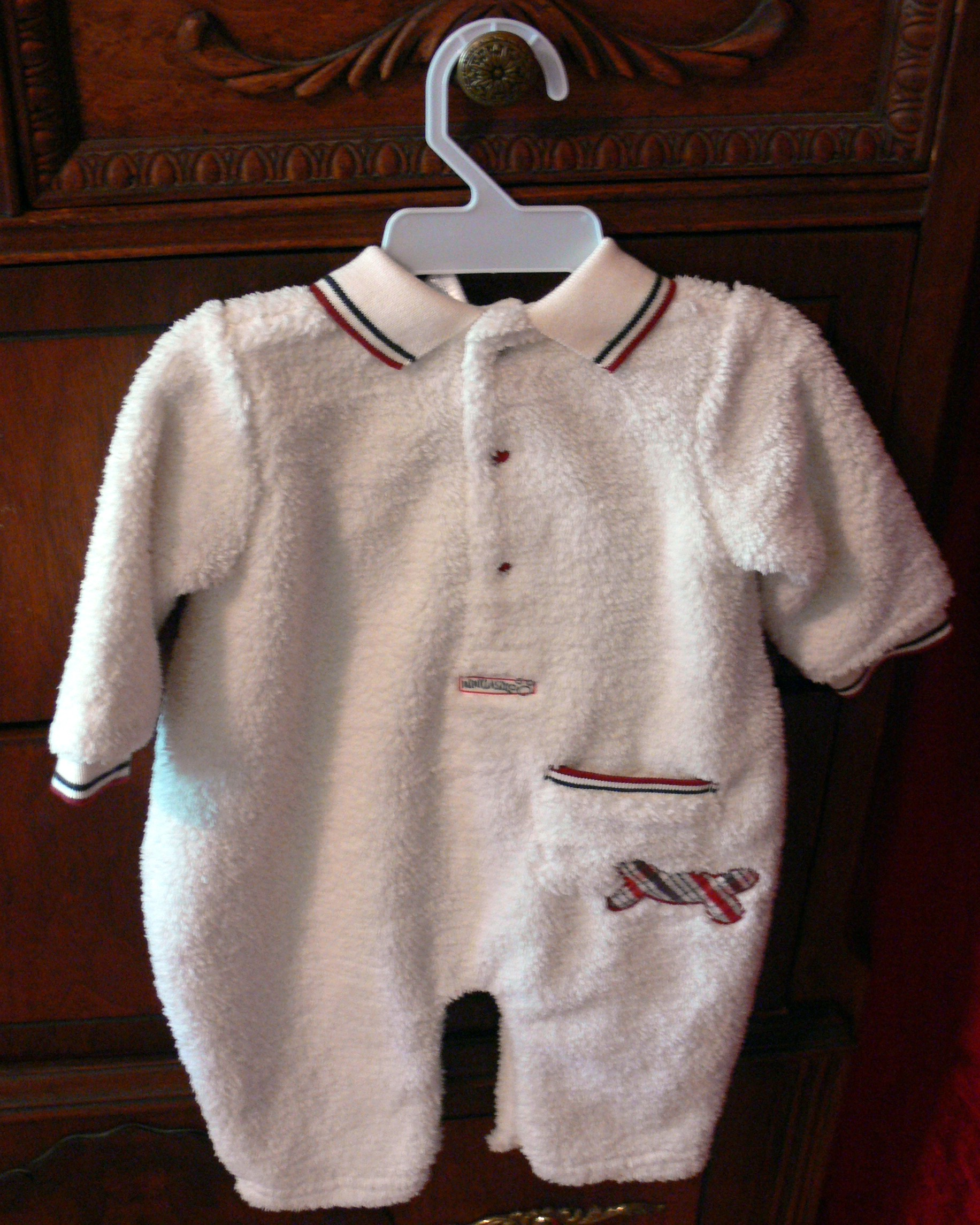 Onesie photo from flickr by jessicafm